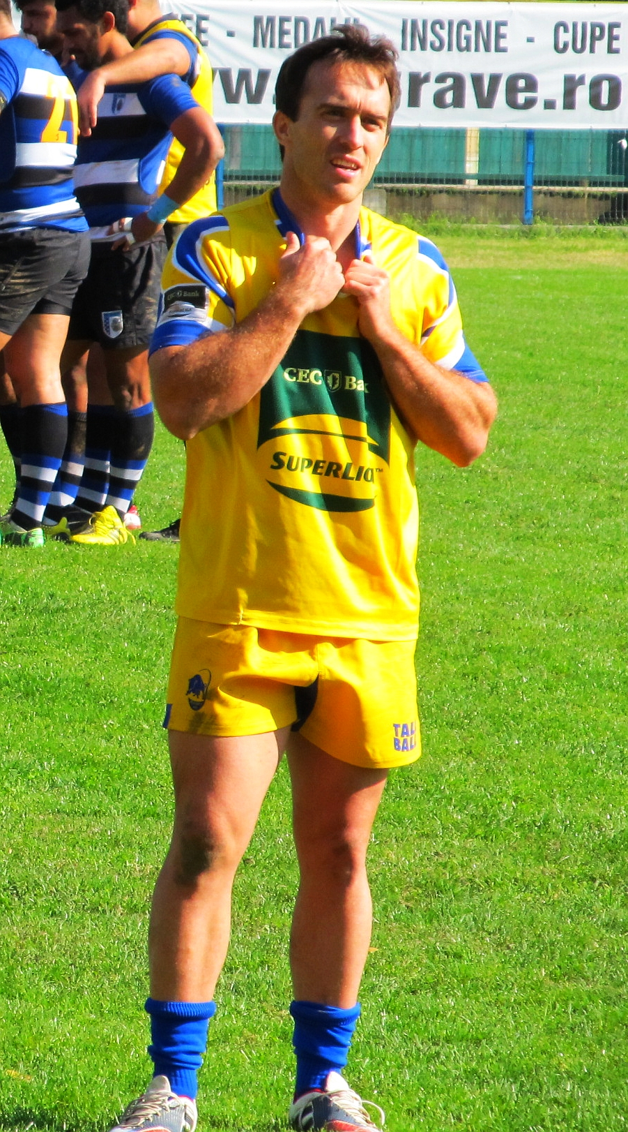 Rugby Union player Michael Wiringi during a match between his team, CSM Baia Mare, and rivals CSM București.